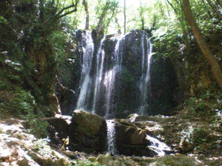 Picture of Kolešino Waterfall in Kolešino, Macedonia. Taken 6 July 2007 by Anne Withers.